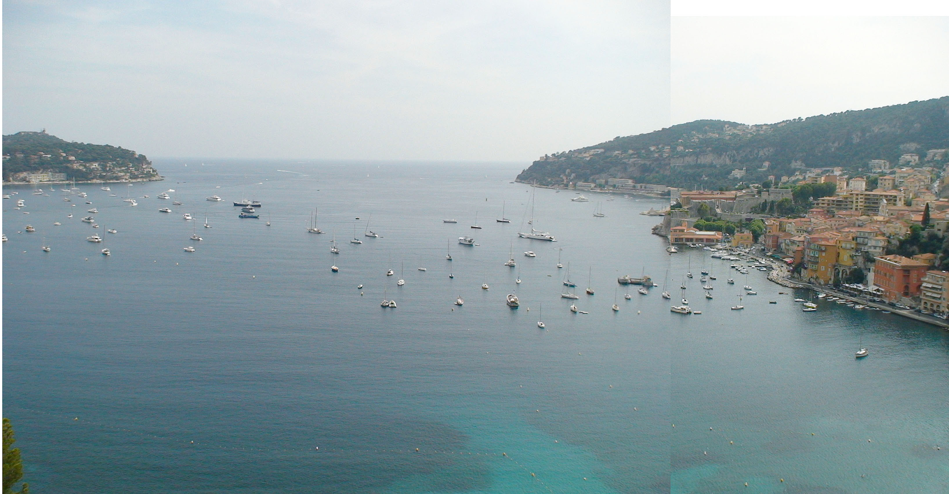 Golf Villefranche near Nice